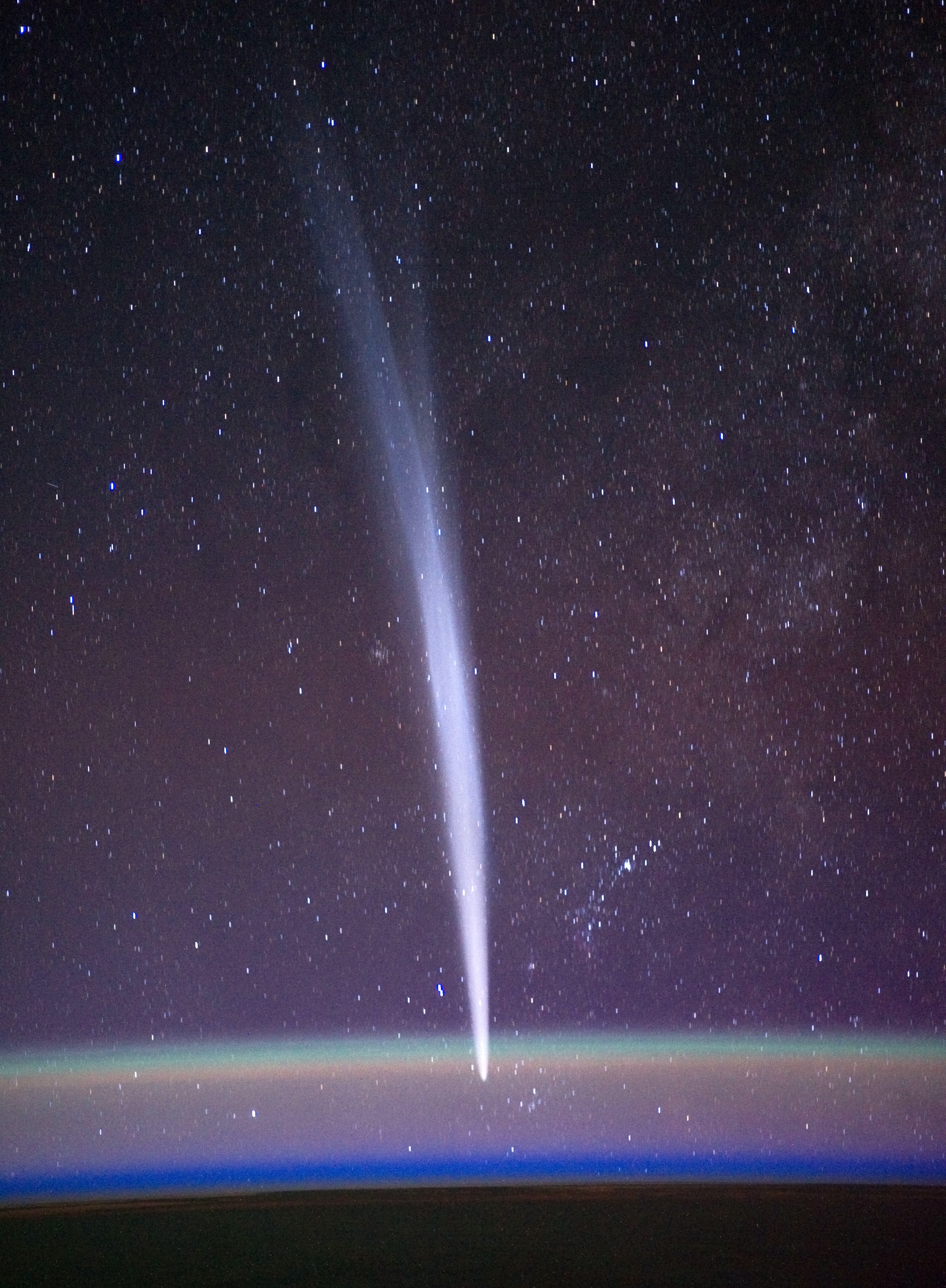 Comet Lovejoy is visible near Earth's horizon behind airglow in this nighttime image photographed by NASA astronaut Dan Burbank, Expedition 30 commander, onboard the International Space Station on Dec. 22, 2011.